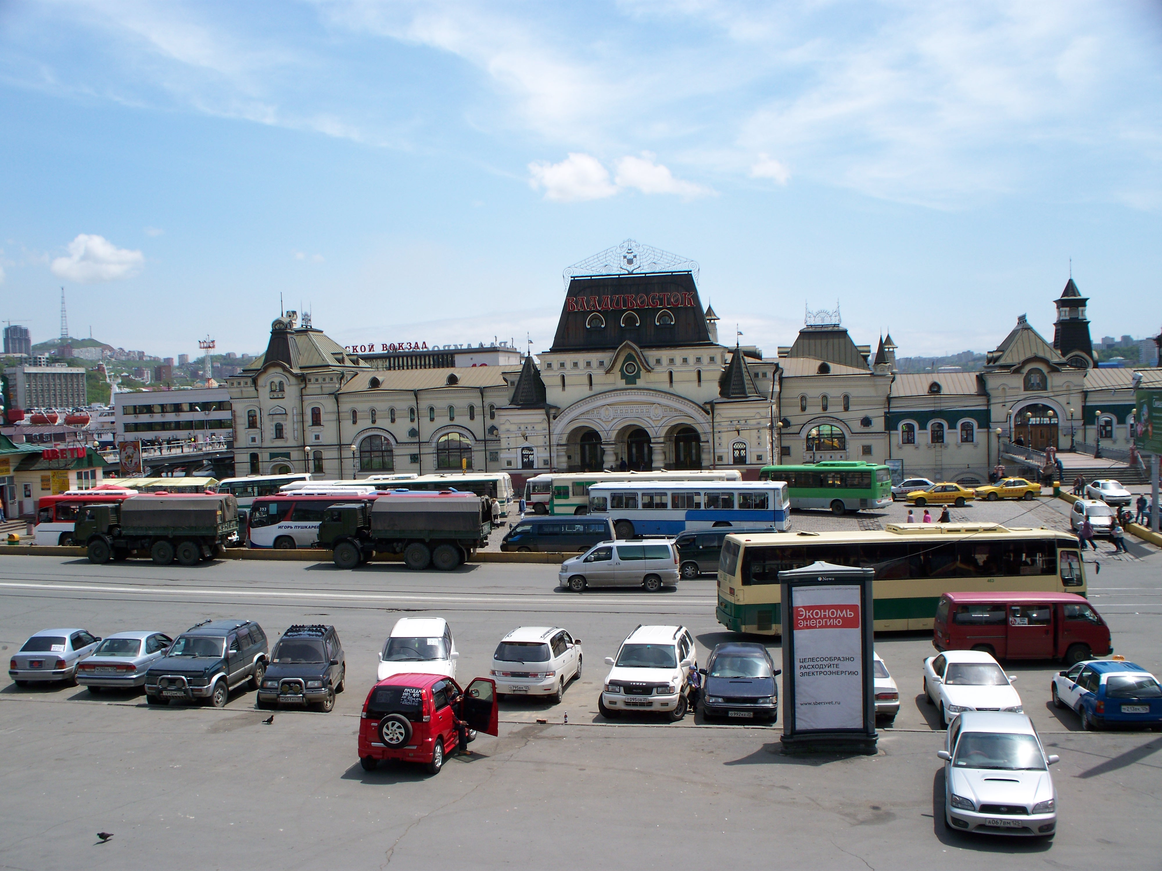 Vladivostok Railroad Station (terminus of the Trans-Siberian Railway), July 2008.